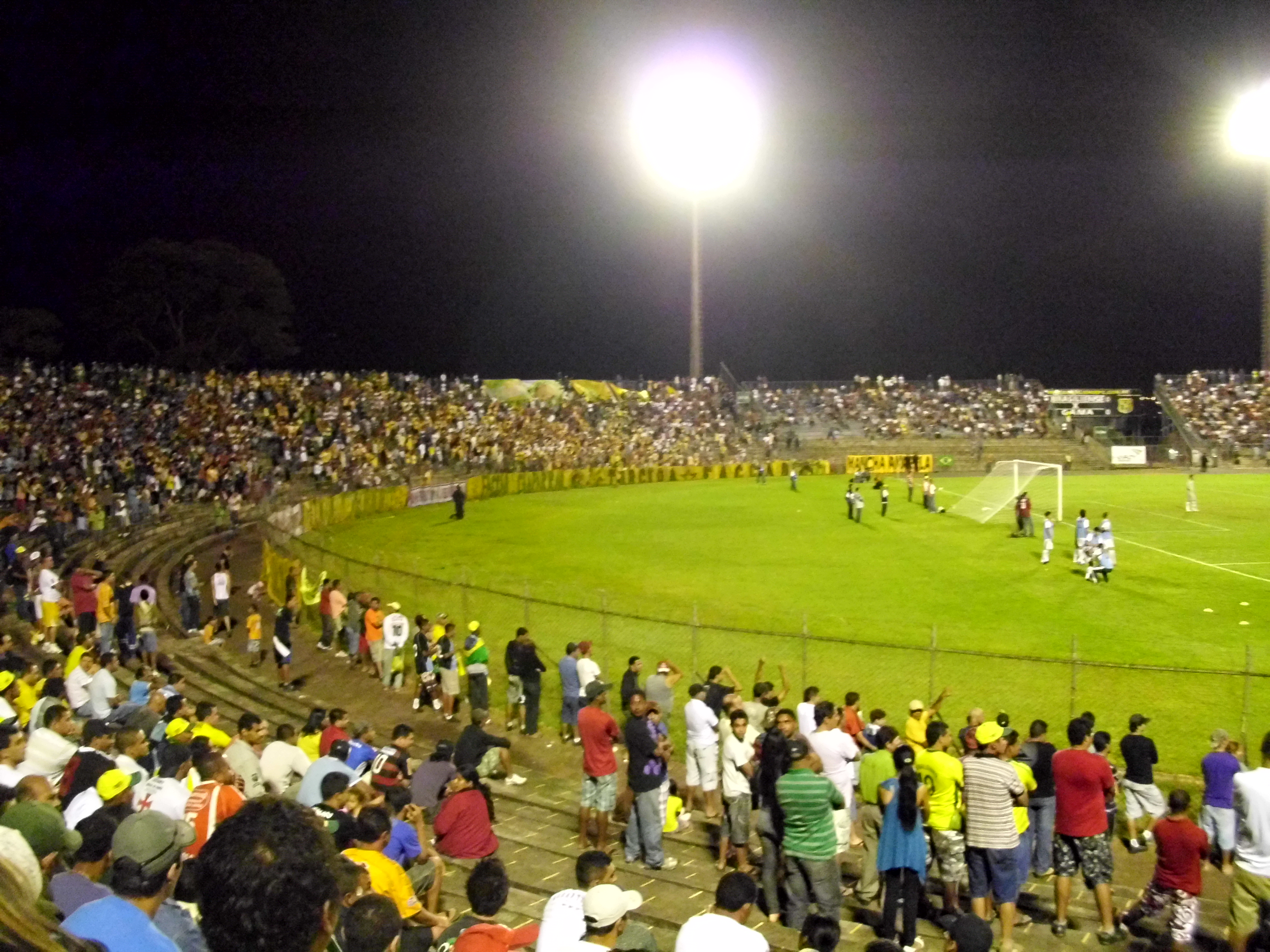 The Brasiliense FC supporters, in the Boca do Jacaré Stadium